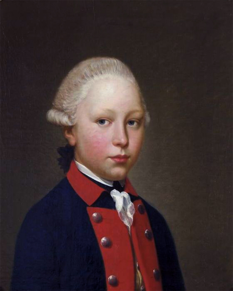 Dirk van Hogendorp as a juvenile